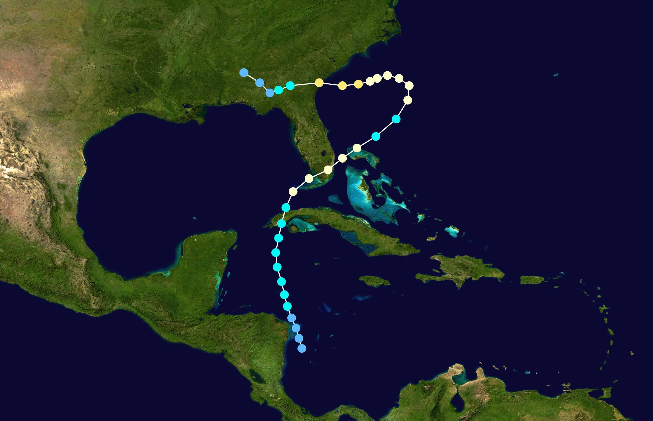 1947 Atlantic hurricane 8 track. Uses the color scheme from the Saffir-Simpson Hurricane Scale.